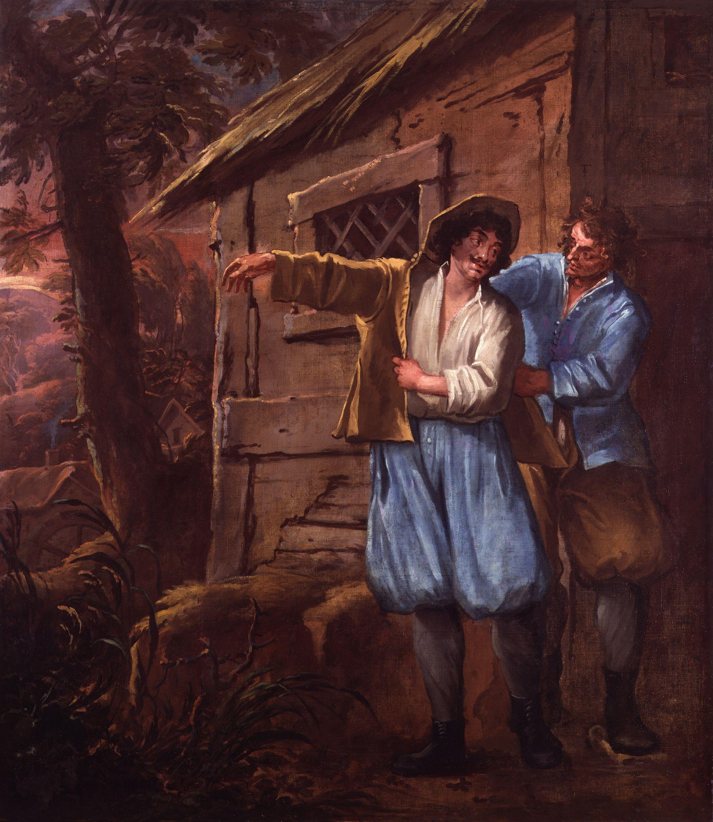 King Charles II at Whiteladies (King Charles II; Richard Penderel), by Isaac Fuller (died 1672). All images in this batch have been confirmed as author died before 1939 according to the official death date listed by the NPG.